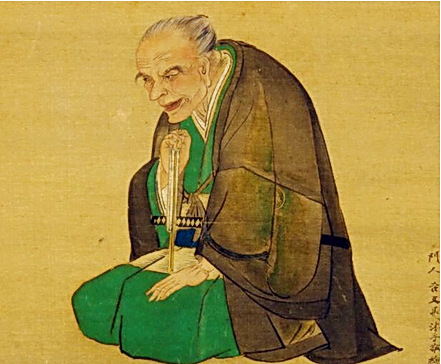 1809 portrait of the herbalist Ono Ranzan by Tani Bunchō.